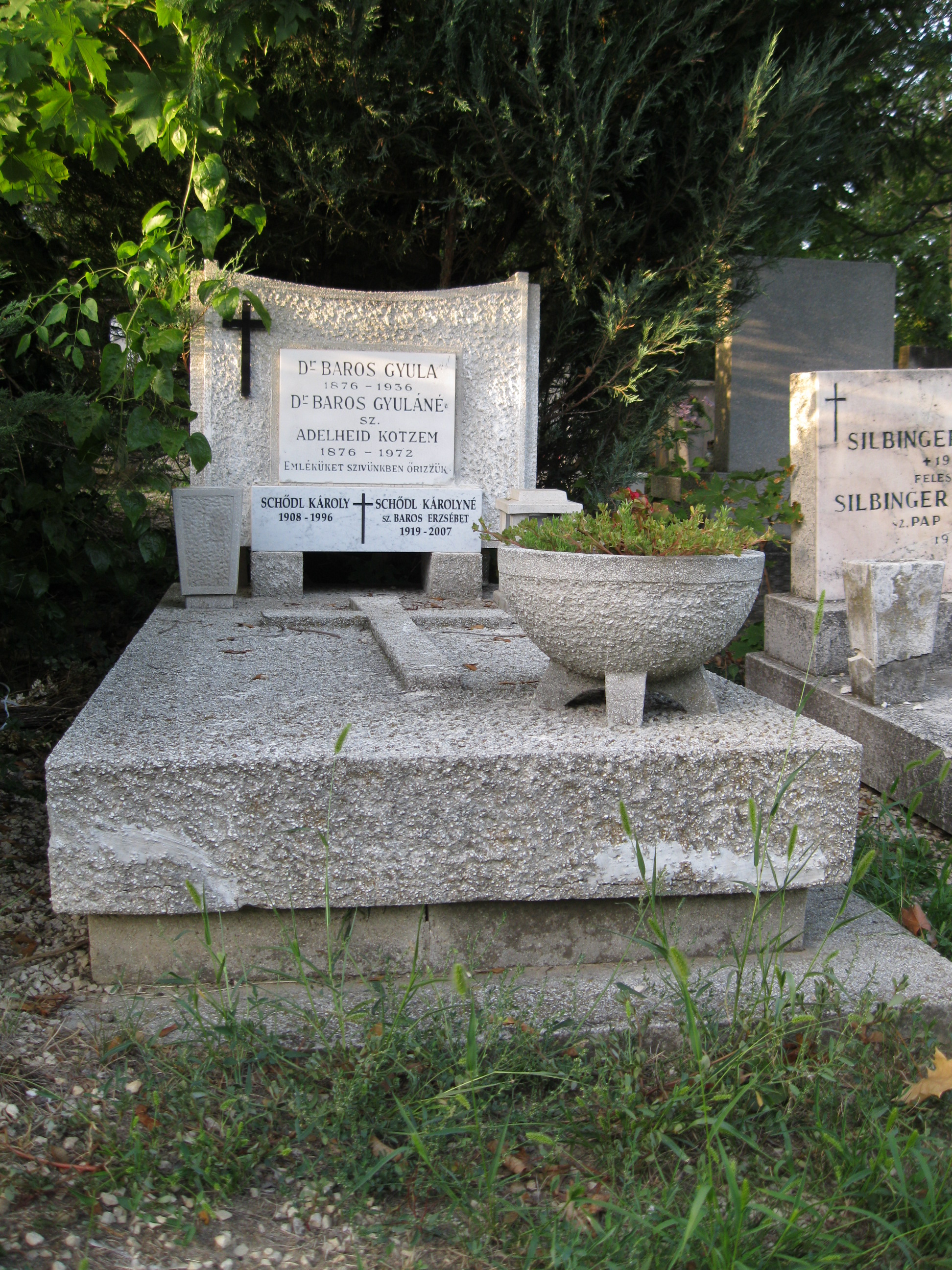 Tomb of Gyula Baros in Farkasréti Cemetery [11/1-1-342]